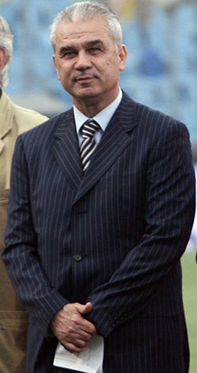 Anghel Iordanescu, former Romania's coach